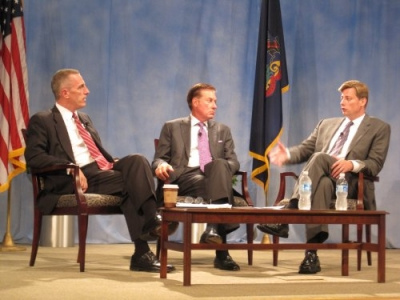 Health Care Forum in Pittsburgh with Congressman Timothy F. Murphy, and Dr. Ken Melani, CEO of Highmark and Congressman Jason Altmire.